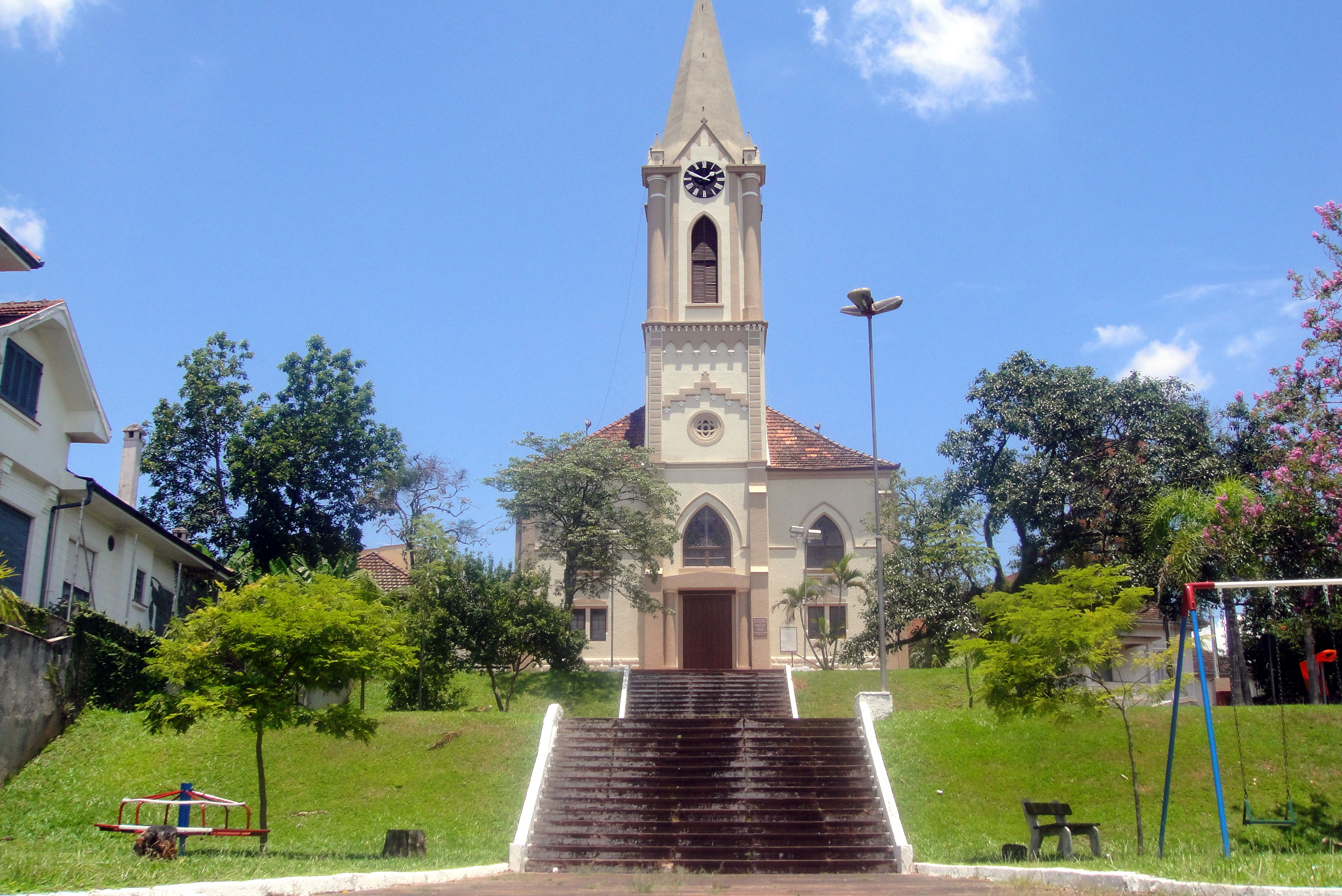 Evangelical Church Three Wise Men ( Three Wise Men)